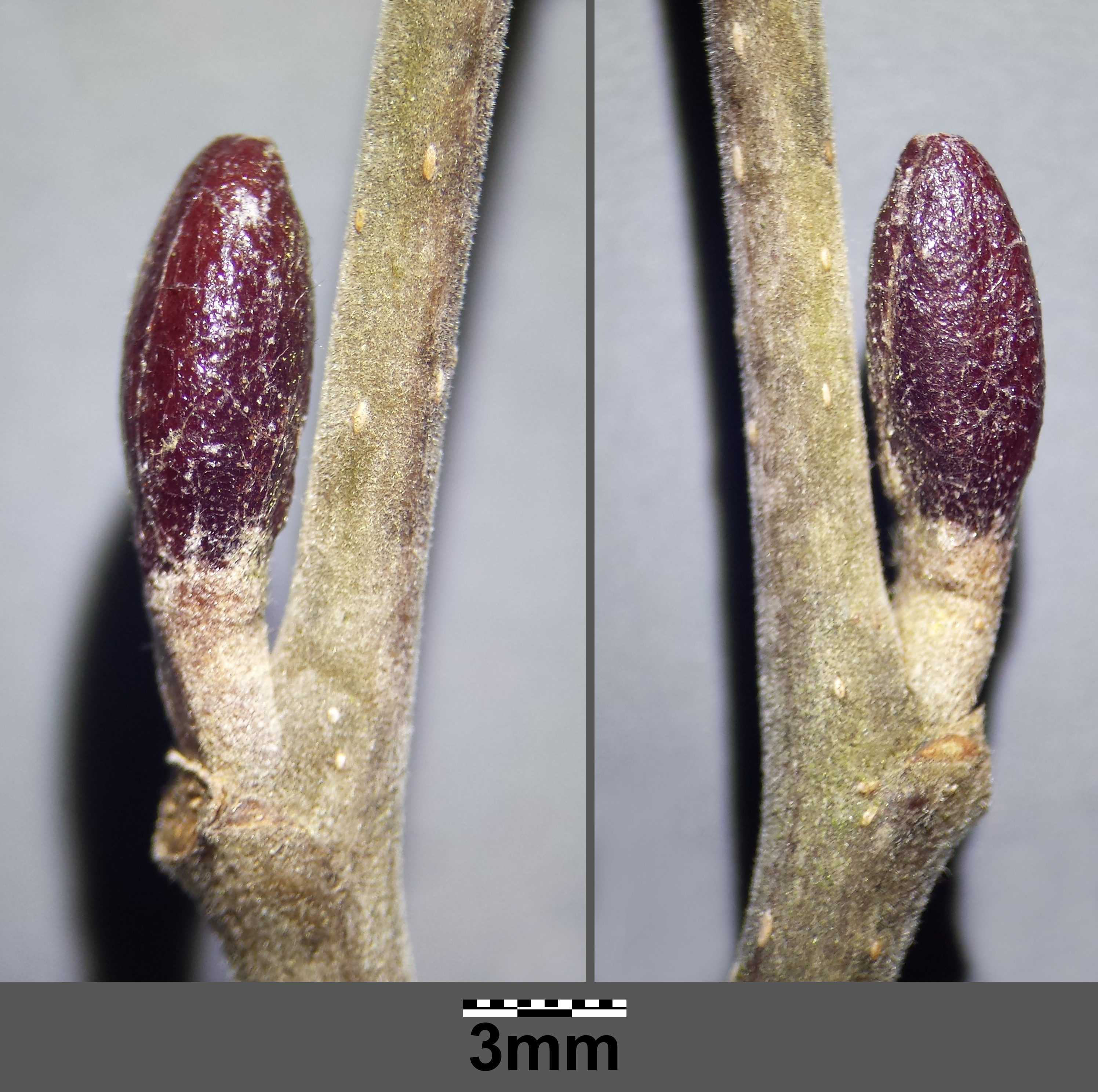 Leaf bud Taxonym: Alnus glutinosa ss Fischer et al. EfÖLS 2008 ISBN 978-3-85474-187-9 Location: Pfaffenholz near Niederhollabrunn, district Korneuburg, Lower Austria - ca. 280 m a.s.l. Habitat: floodplain forest